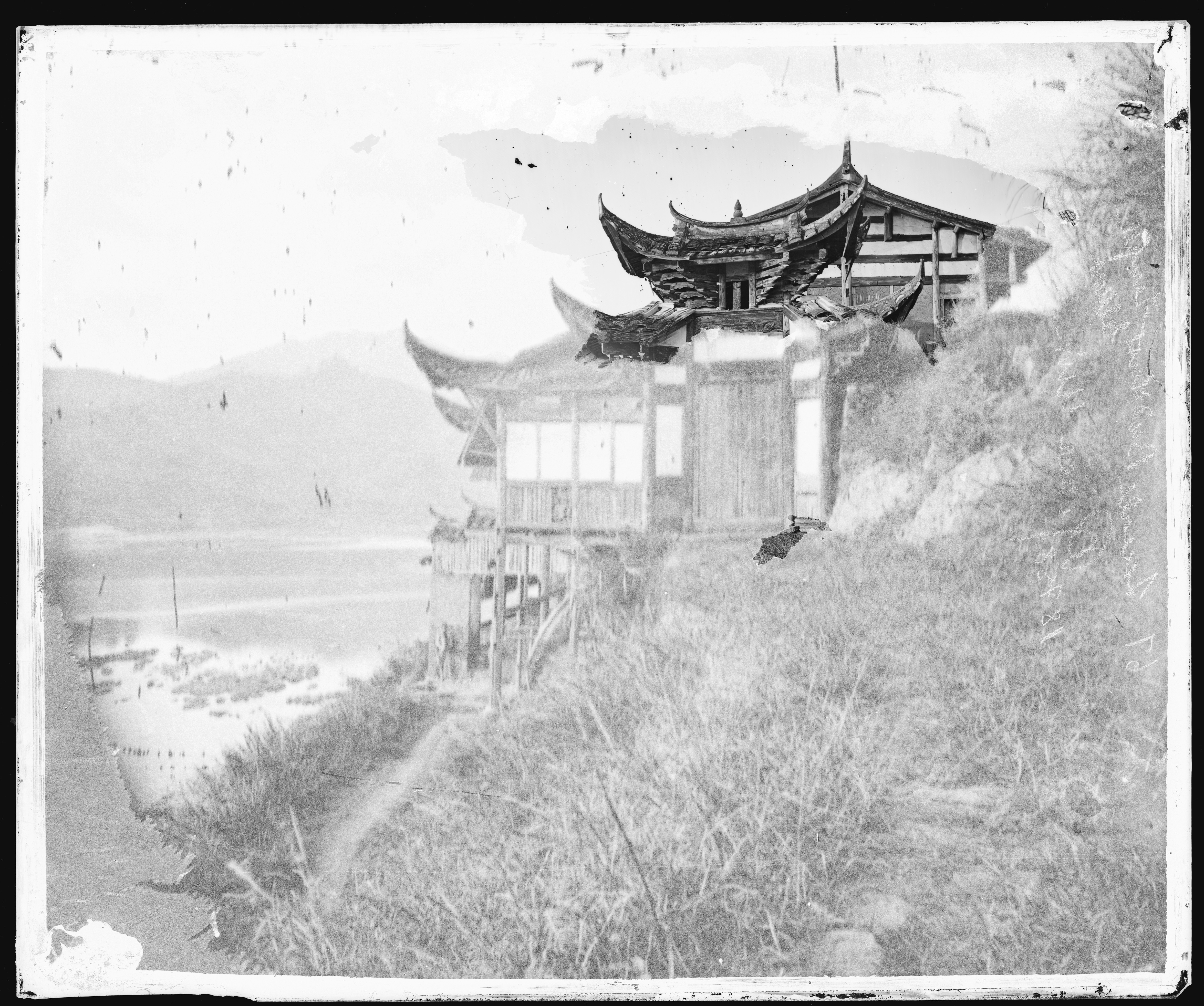 River Min, Fukien province, China. Photograph by John Thomson, 1870/1871. Iconographic Collections Keywords: J. Thomson